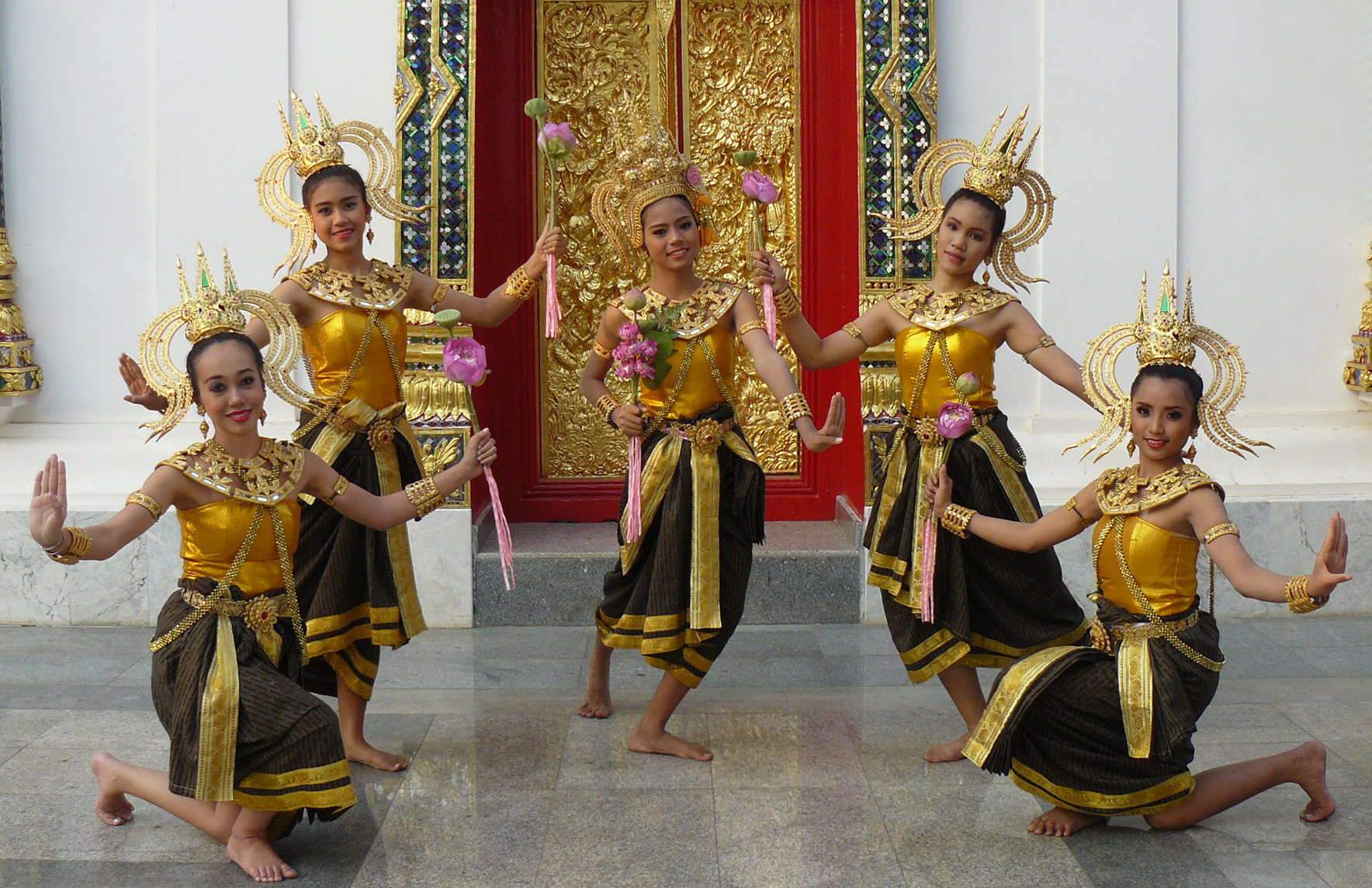 dancing art Thai ancient show in the Wat Phra Thaen Sila At fair in Thung Yang subdistrict, Amphoe Laplae, Uttaradit Province, Thailand.